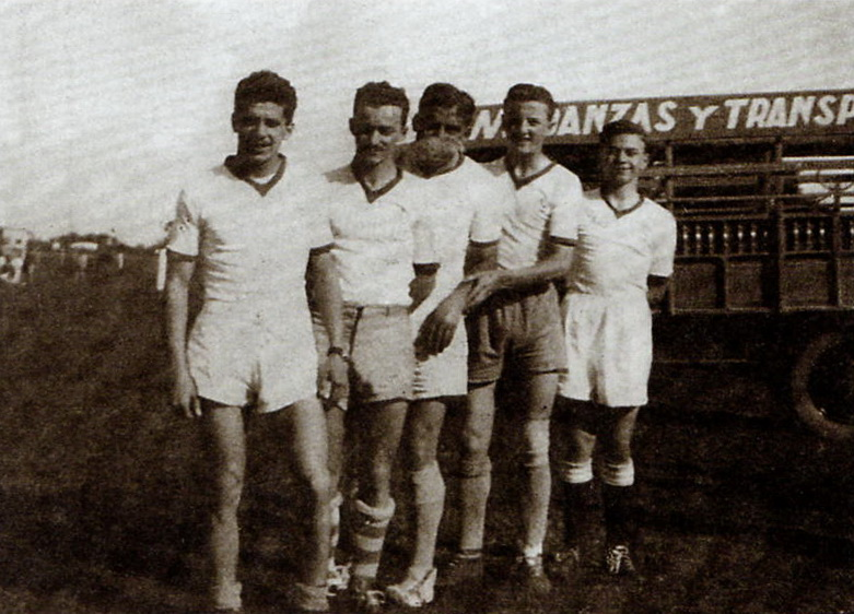 Unión Progresista. Di Stefano is on the right